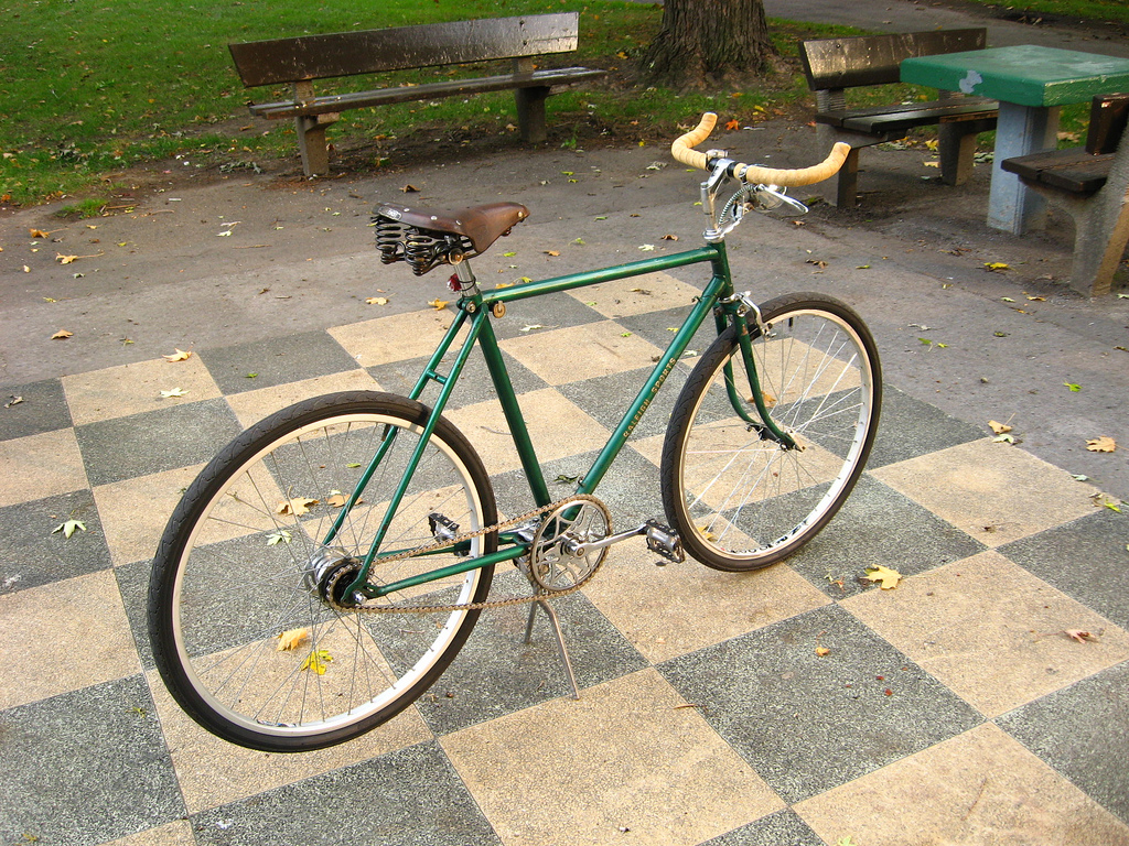 Converted 1956 Raleigh Sports makes a great contemporary urban-bike